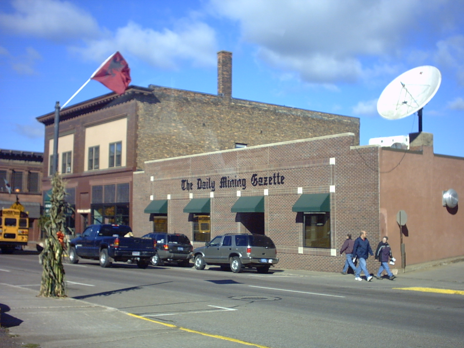 Daily Mining Gazette offices, located in Houghton. Released under the GNU Free Document License.